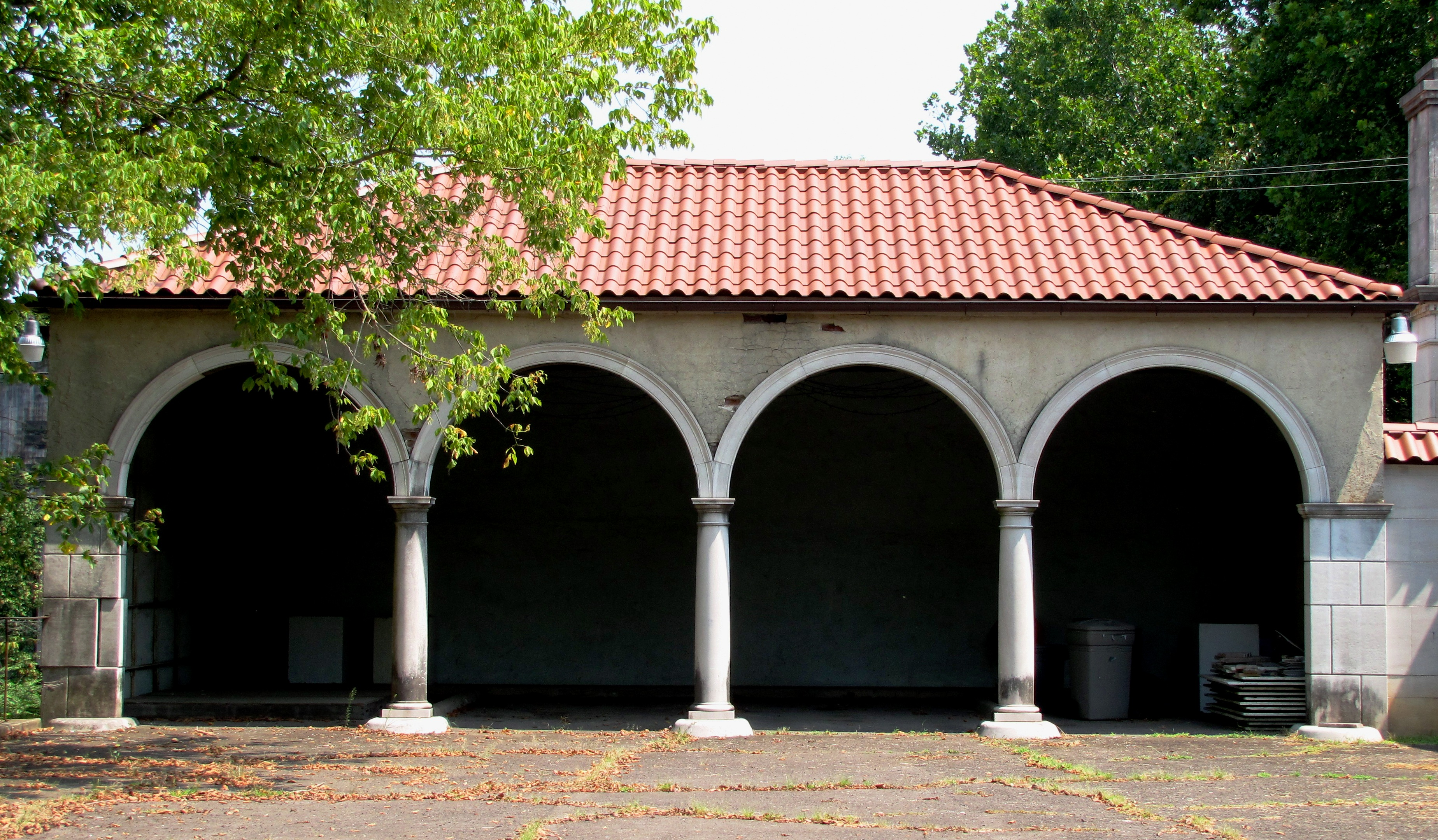 Garage at the Candoro Marble Works in the Vestal community of Knoxville, Tennessee, USA.